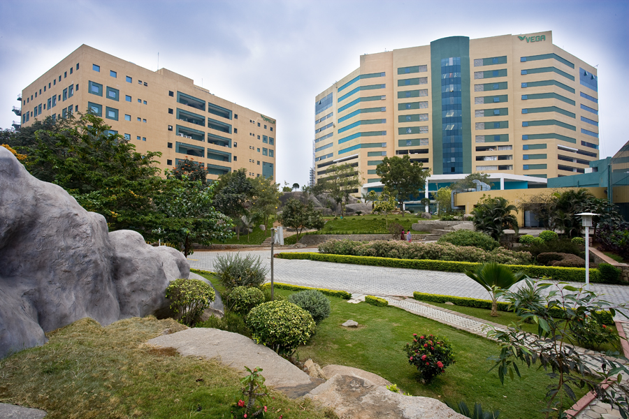 The V- Twin Building view